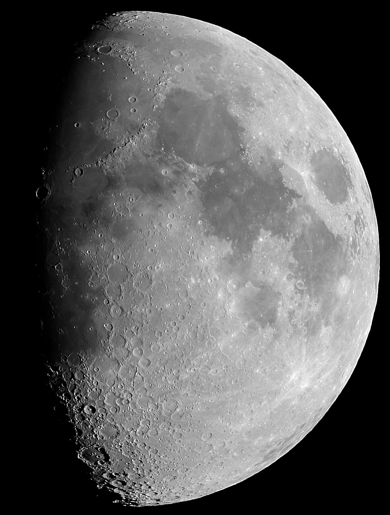 A nighttime view of a gibbous Moon from Hamois, Belgium.